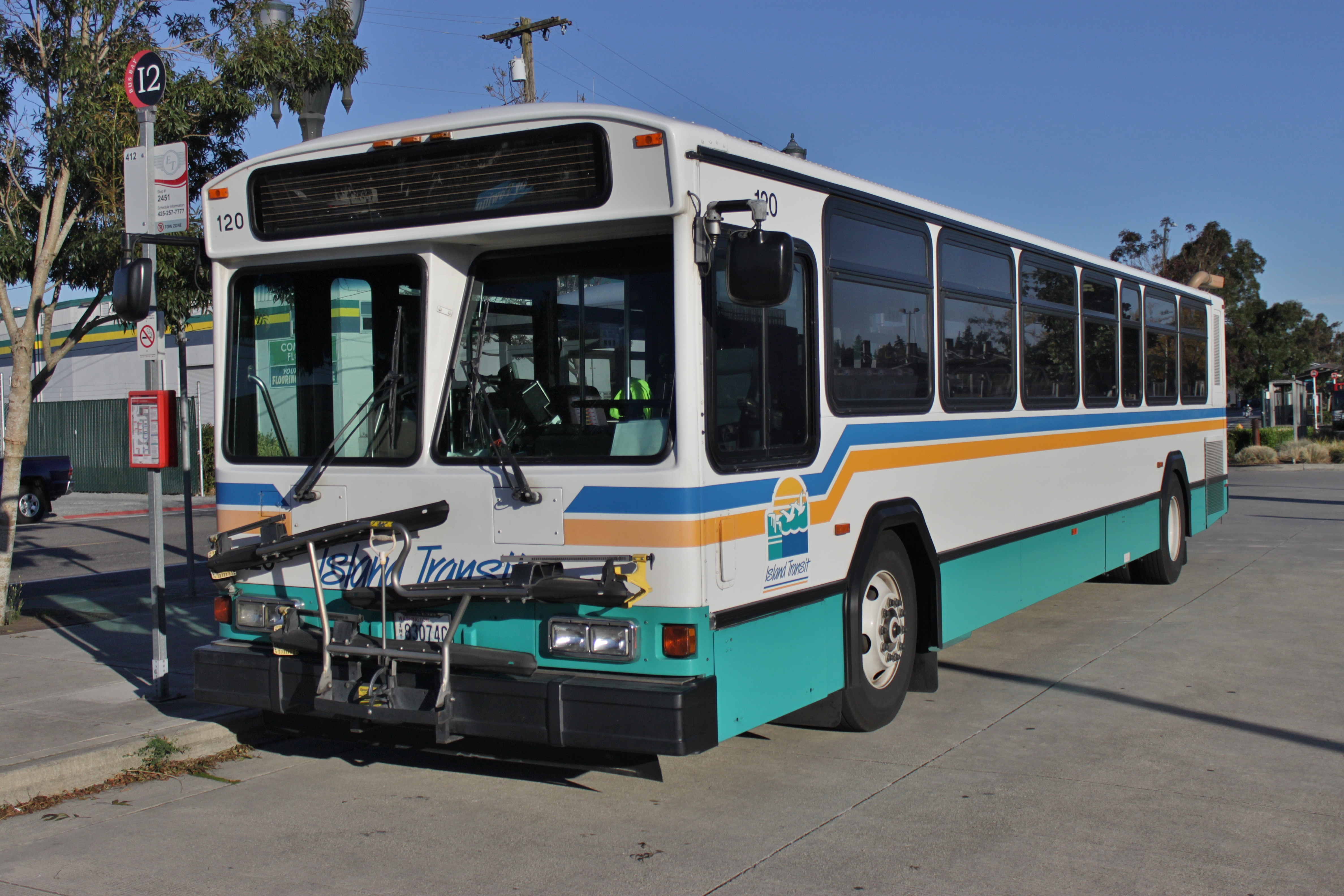 An Island Transit bus on layover at Everett Station in Everett, Washington. The bus is a 2007 Gillig Phantom used on route 412 between Everett and Camano Island.